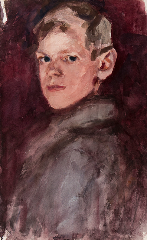 Portrait of a boy. Watercolour. Stamped verso: ‘Harry Becker / Loftus Coll.’ 19.5x12.25 inches.